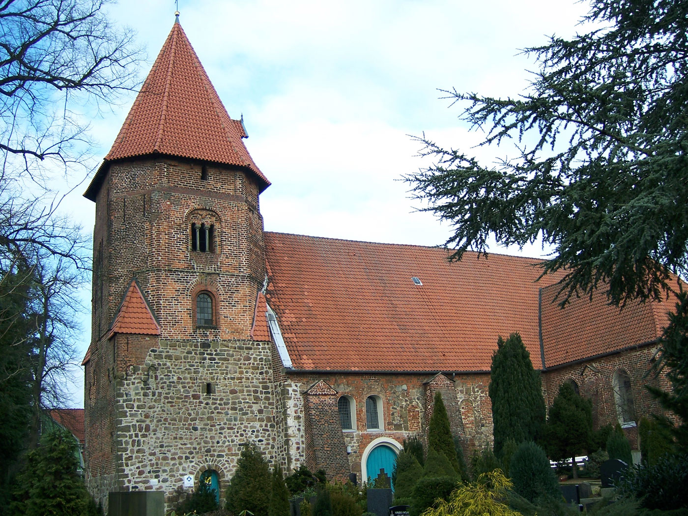 The Evangelical Lutheran St. Lawrence Church in Achim upon Weser. The tower dates back to the 12th c., today's nave is somewhat younger.